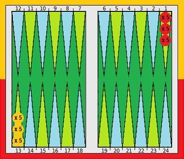 Jacquet board, initial position – a French variant of Backgammon is "Jacquet".